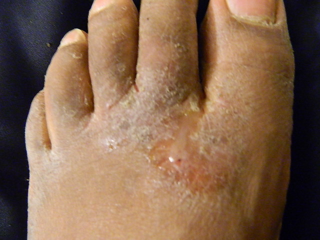 Athlete's foot left untreated.